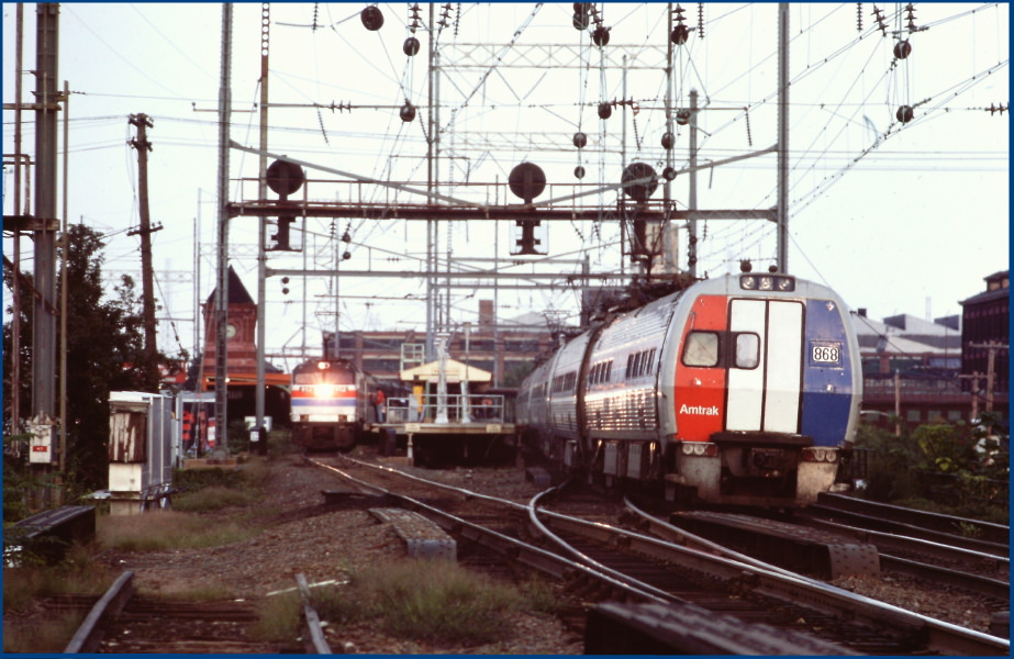 An Amtrak E60 (left) and Metroliners at Wilmington in August 1977